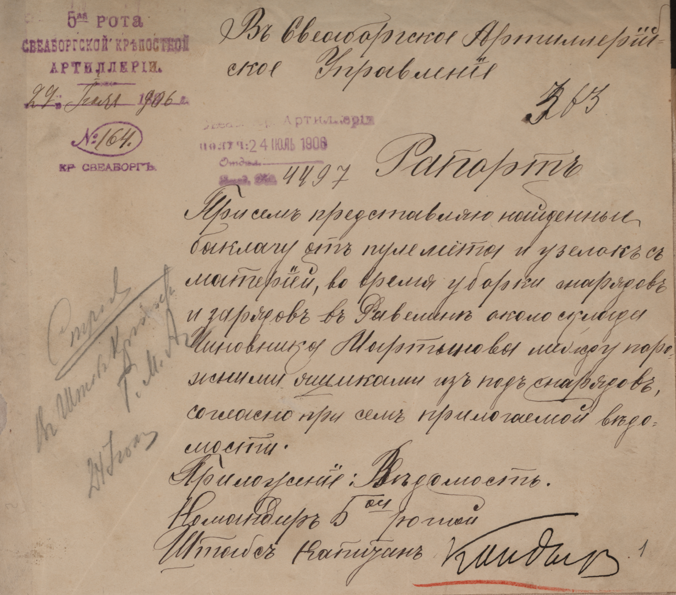 Russian military report on stolen ammunition at the Sveaborg Fortress in Helsinki, Finland. July 1906, one week before the Sveaborg Rebellion.